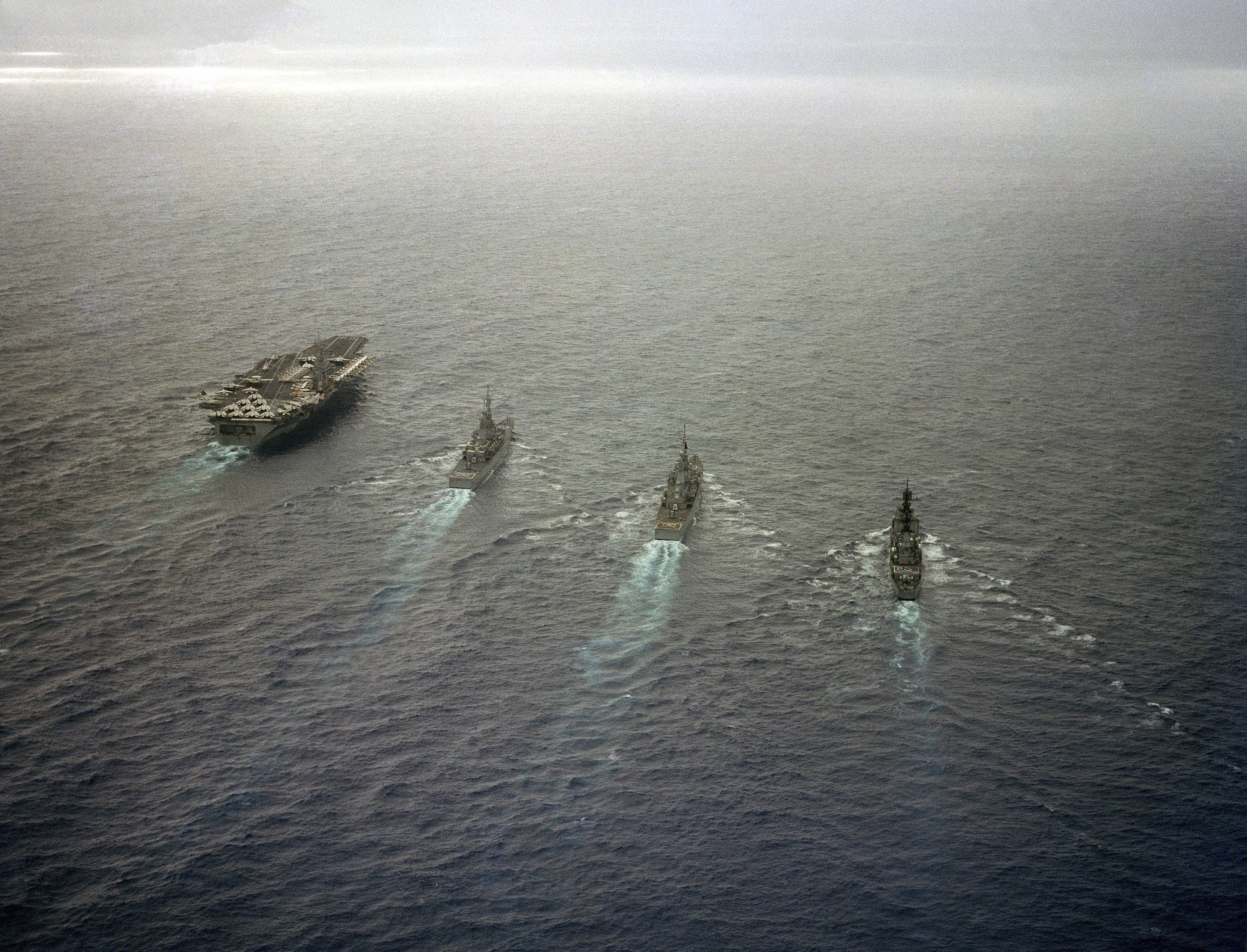 Aerial stern view of (left to right) the nuclear-powered aircraft carrier USS Nimitz (CVN-68), the nuclear-powered guided missile cruisers USS Mississippi (CGN-40) and USS Texas (CGN-39), and the guided missile cruiser USS Biddle (CG-34), underway in the Mediterranean Sea, August 1981. On 19 August 1981 two F-14A Tomcats from VF-41 "Black Aces," based on Nimitz, used Sidewinder missiles to shoot down two Libyan, Soviet-built SU-22 Fitters over the Gulf of Sidra, after one of the Libyan jets fired an Atoll heat-seeking missile. This incident marked the first Navy air combat confrontation since the Vietnam War and the first ever for the F-14A Tomcat.